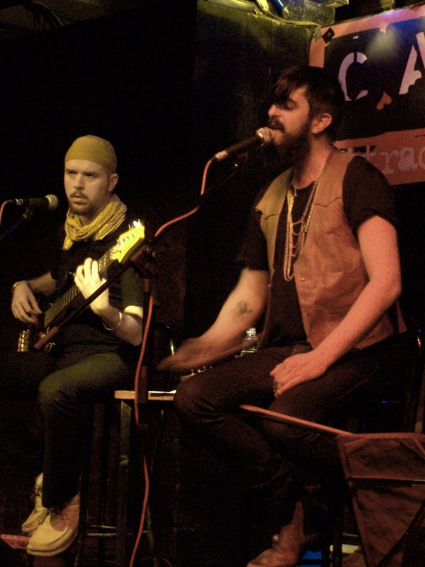 Scott Matthew @ Calamita Cavriago, 22nd November 2008